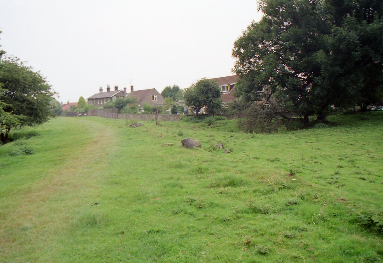 General view of the site of the original Goathland station at Incline Top, Goathland, North Yorkshire, UK